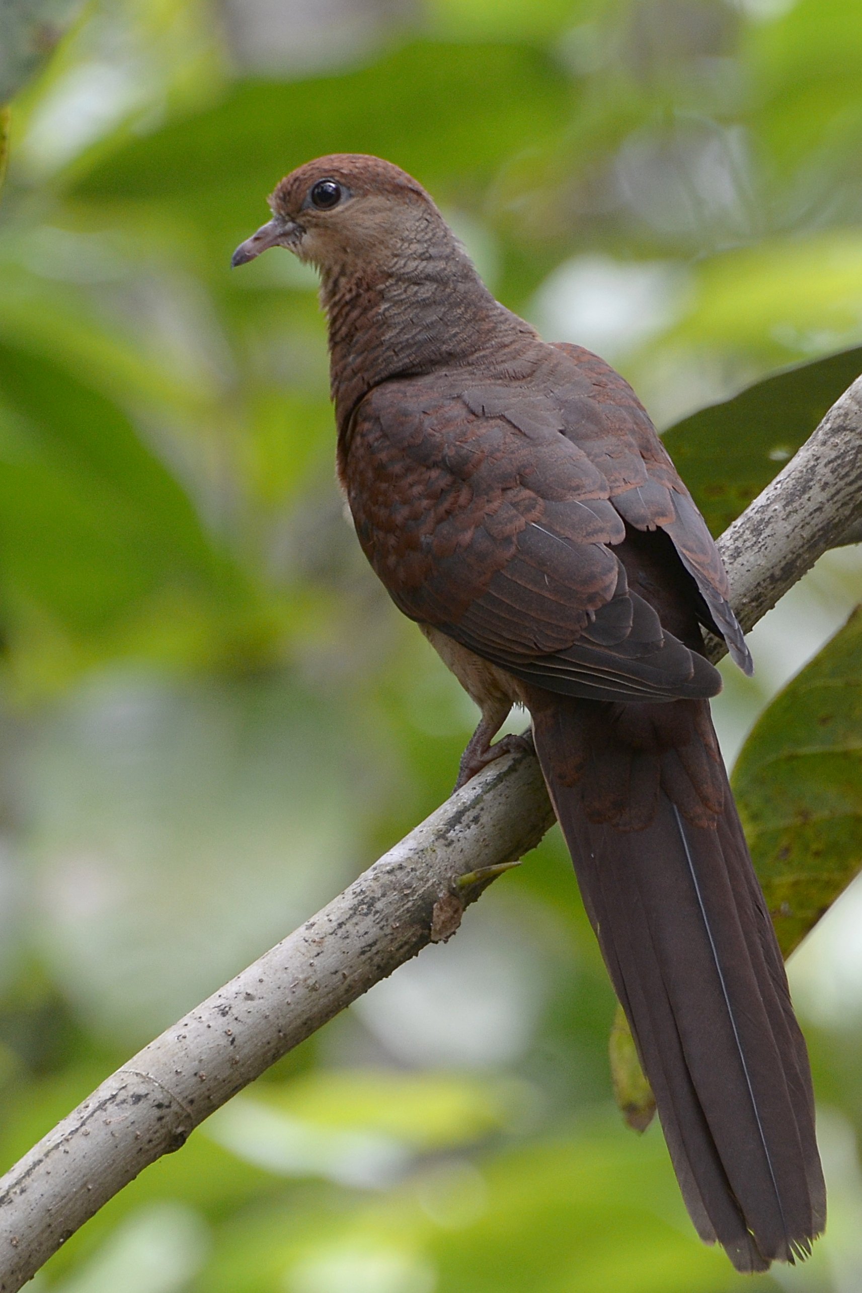 Slender-billed cuckoo-dove (Macropygia amboinensis albicapilla) at Mount Mahawu Protected Forest, North SulawesiBahasa Indonesia: Uncal ambon (Macropygia amboinensis albicapilla) di Hutan Lindung Gunung Mahawu, Sulawesi Utara